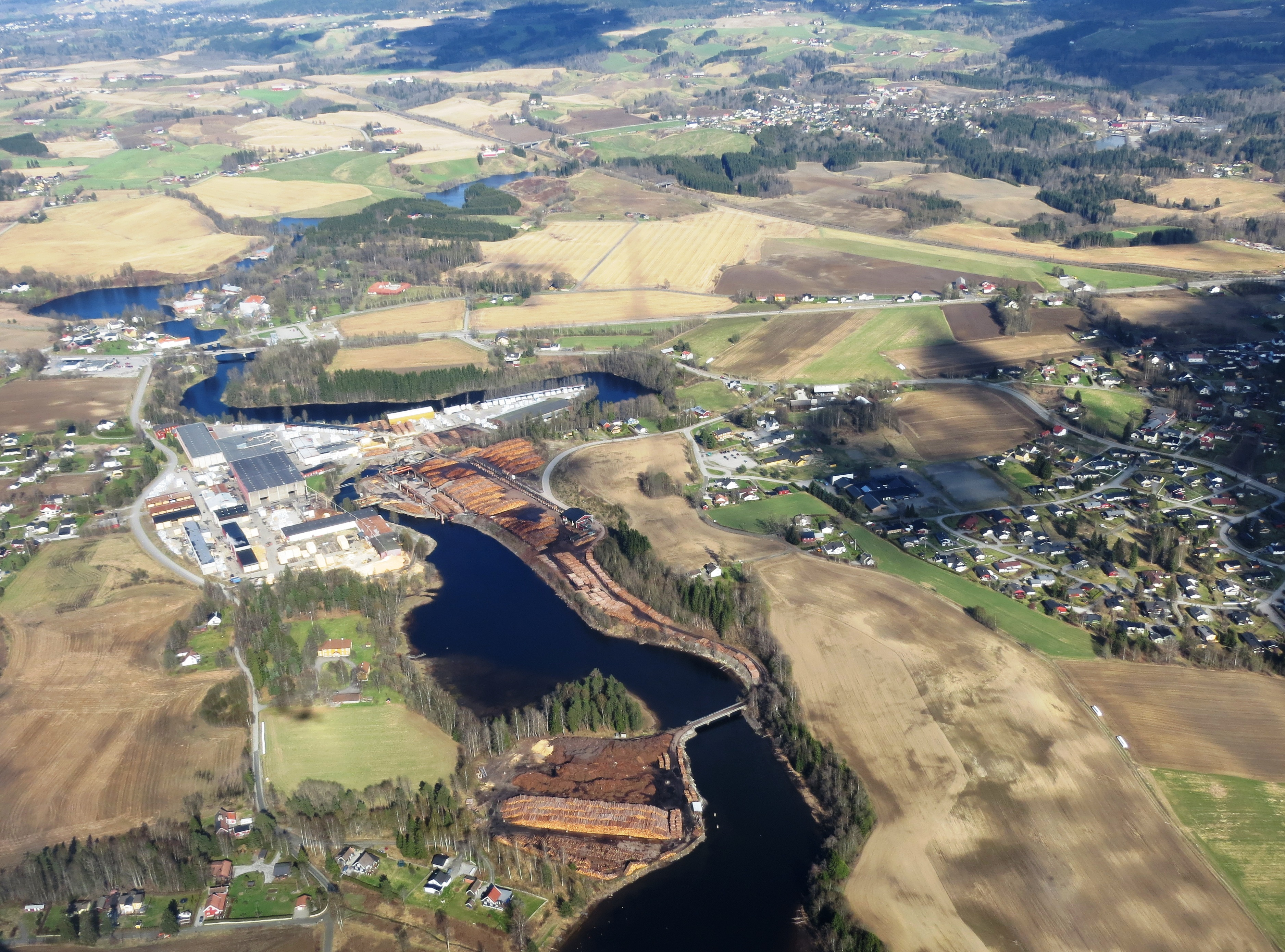 Image from the Eidsvoll Verk area with the Andelva river, and E6 highway. Norway.